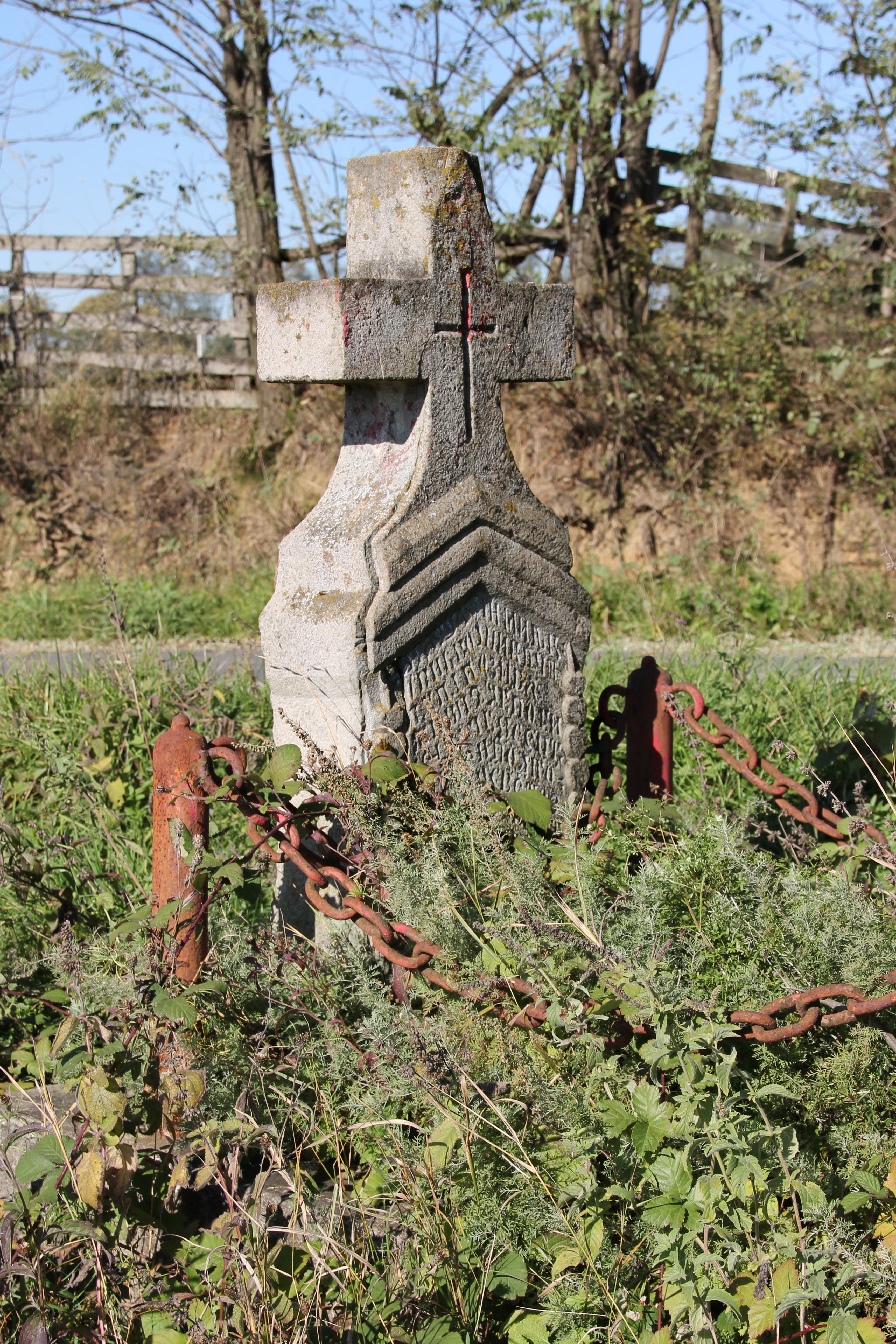 Roadside tombstone erected in memory of Dragutin Miljkovic and his brothers. It is located in the village of Ljutovnica (the municipality of Gornji Milanovac), Serbia.